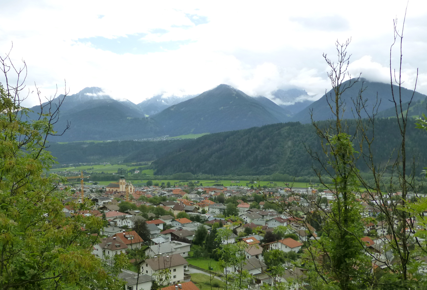 View of Zirl towards the south, from the road 177 (Mittenwald - Innsbruck).